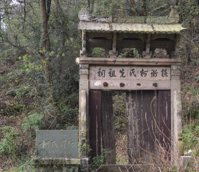 中文（中国大陆）: source=Own work author=*File:柯氏牌坊.jpg: 云中漫步